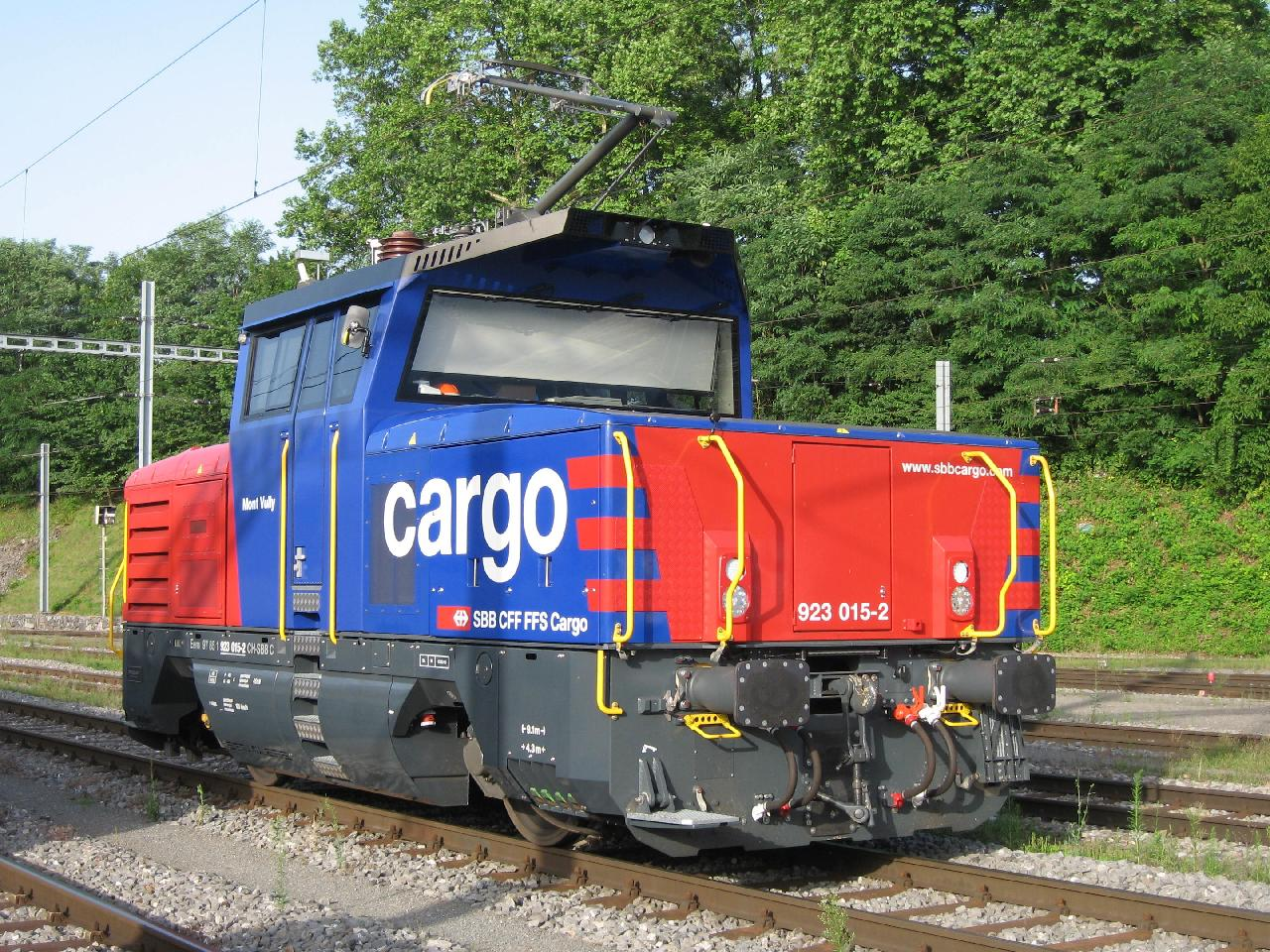 Shunting locomotive Eem 923 series Butler of the Swiss Federal Railways (SBB CFF FFS) at Payerne (Switzerland).